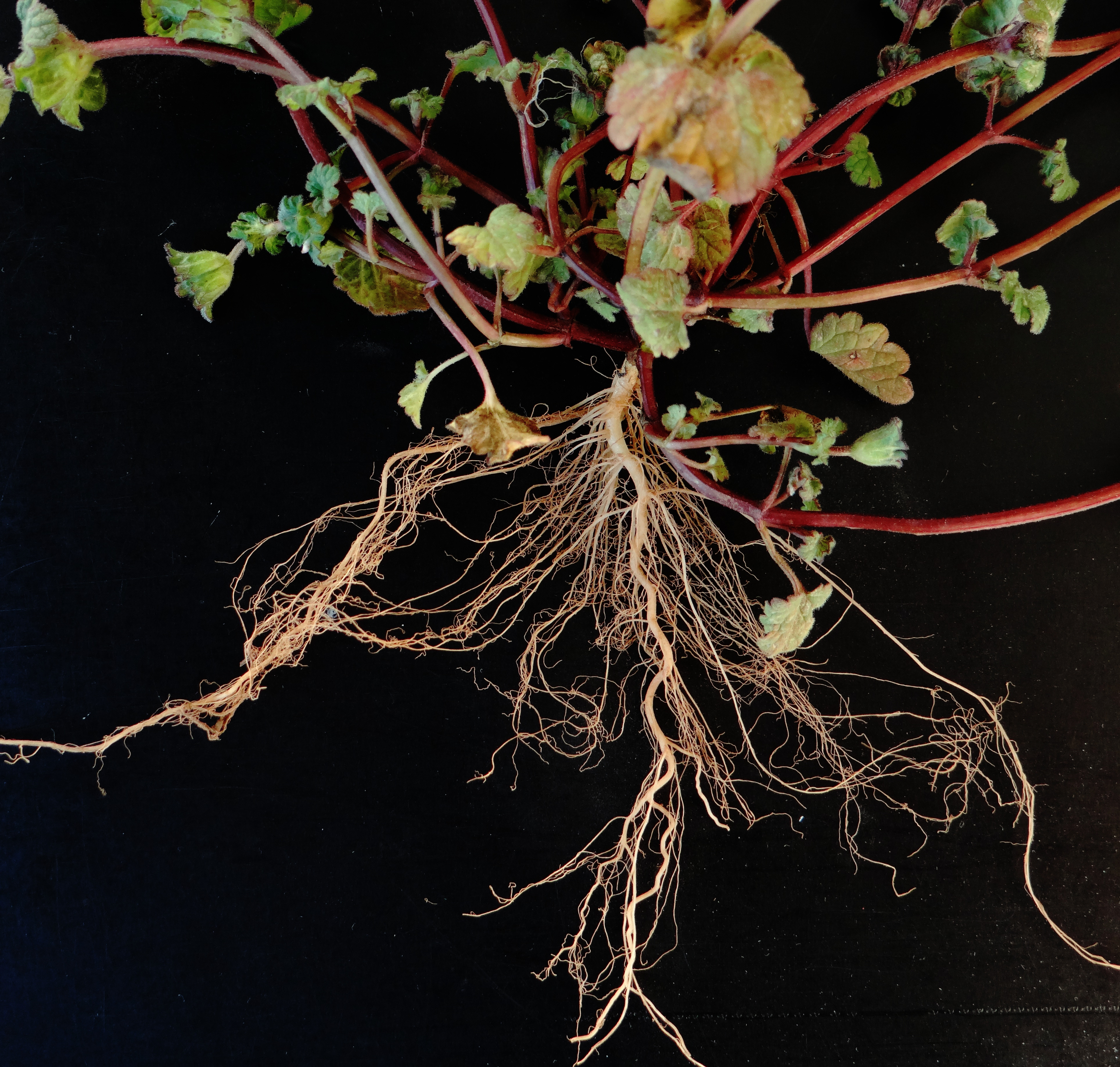 Root of lamium amplexicaule. Date: Feb. 14 2015. Place: Asaka, Satima, Japan.